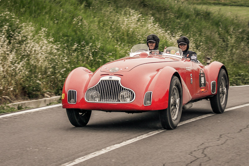 Entry #90 at Mille Miglia on 22 May 2012 was the one-off 1938 Lancia Astura IV serie by Carrozzeria Colli s/n 2972 at Pianoro (BO) on SS dela Futa. It is owned by Museo Nicolis Siglacom,[1] drivers were Giordano Mozzi and Stefania Biacca[2]